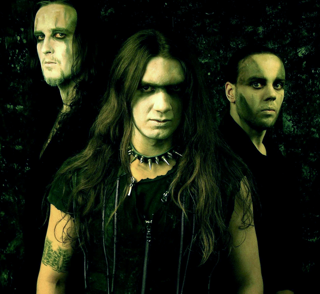 Polish death metal band Hate